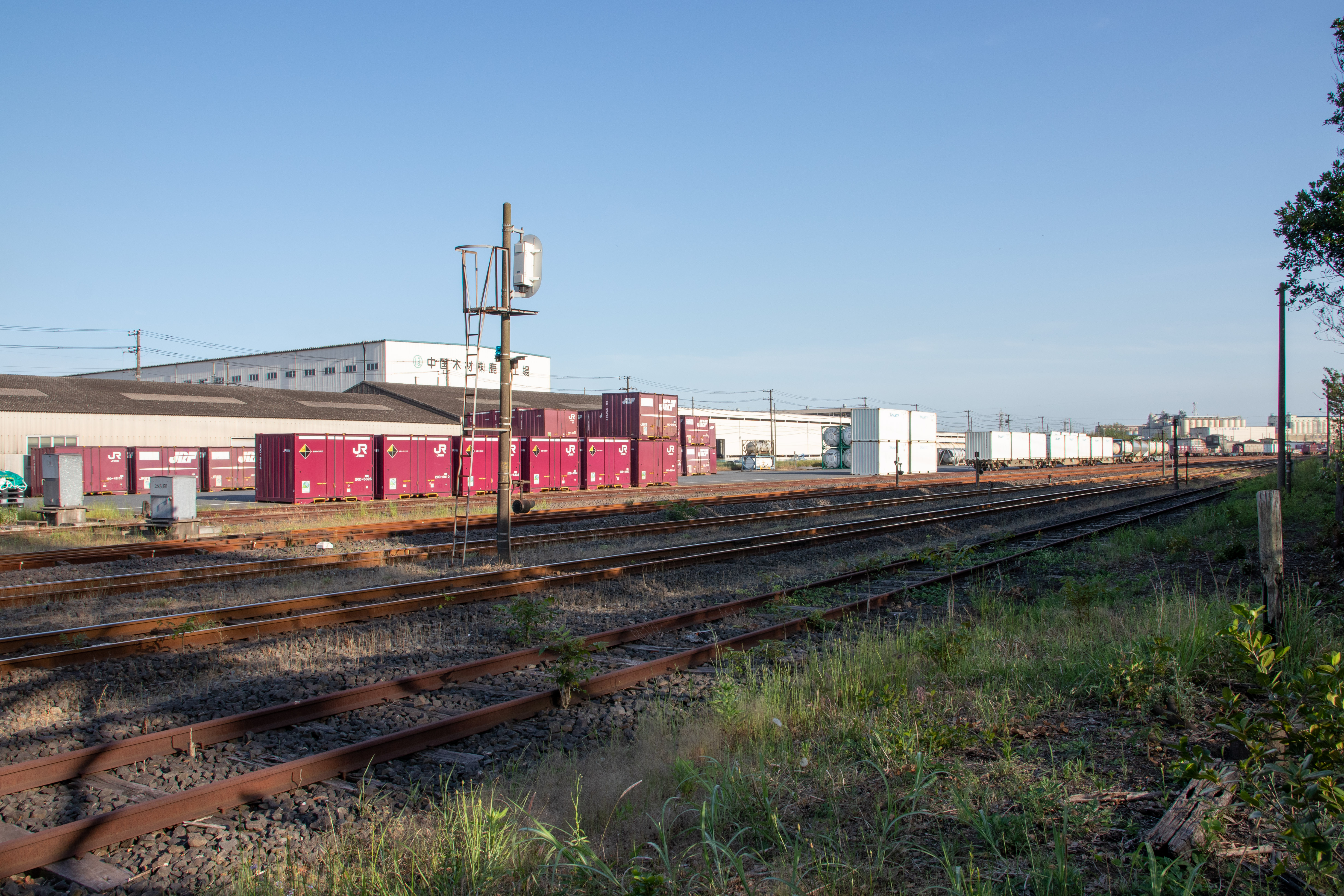 Kamisu Freight Terminal in Kamisu City, Ibaraki, Japan Canon EOS 80D + Sigma 17-70mm F2.8-4 DC Macro OS HSM